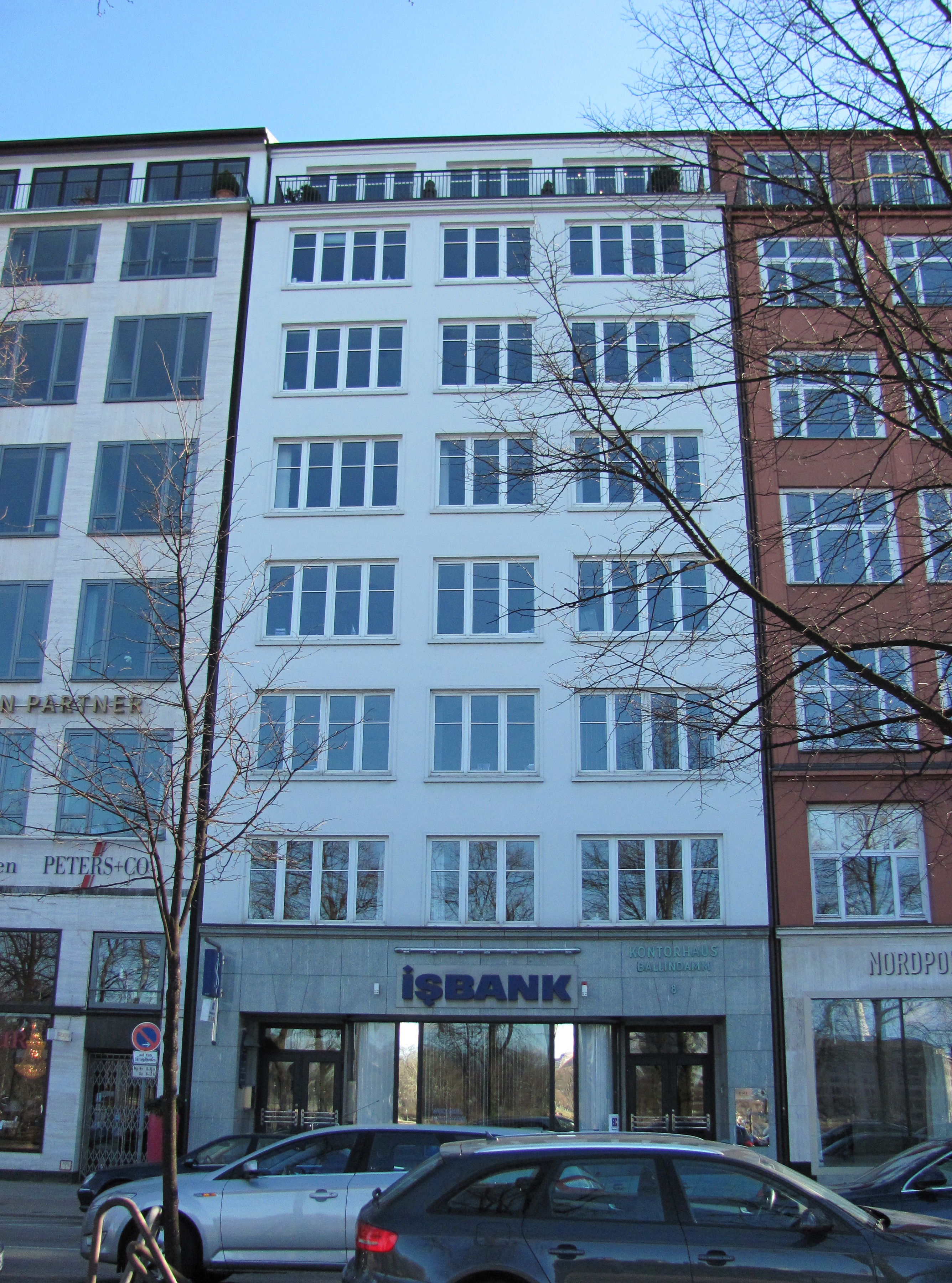 Building Ballindamm 8, Hamburg, honorary consulate of Slovenia